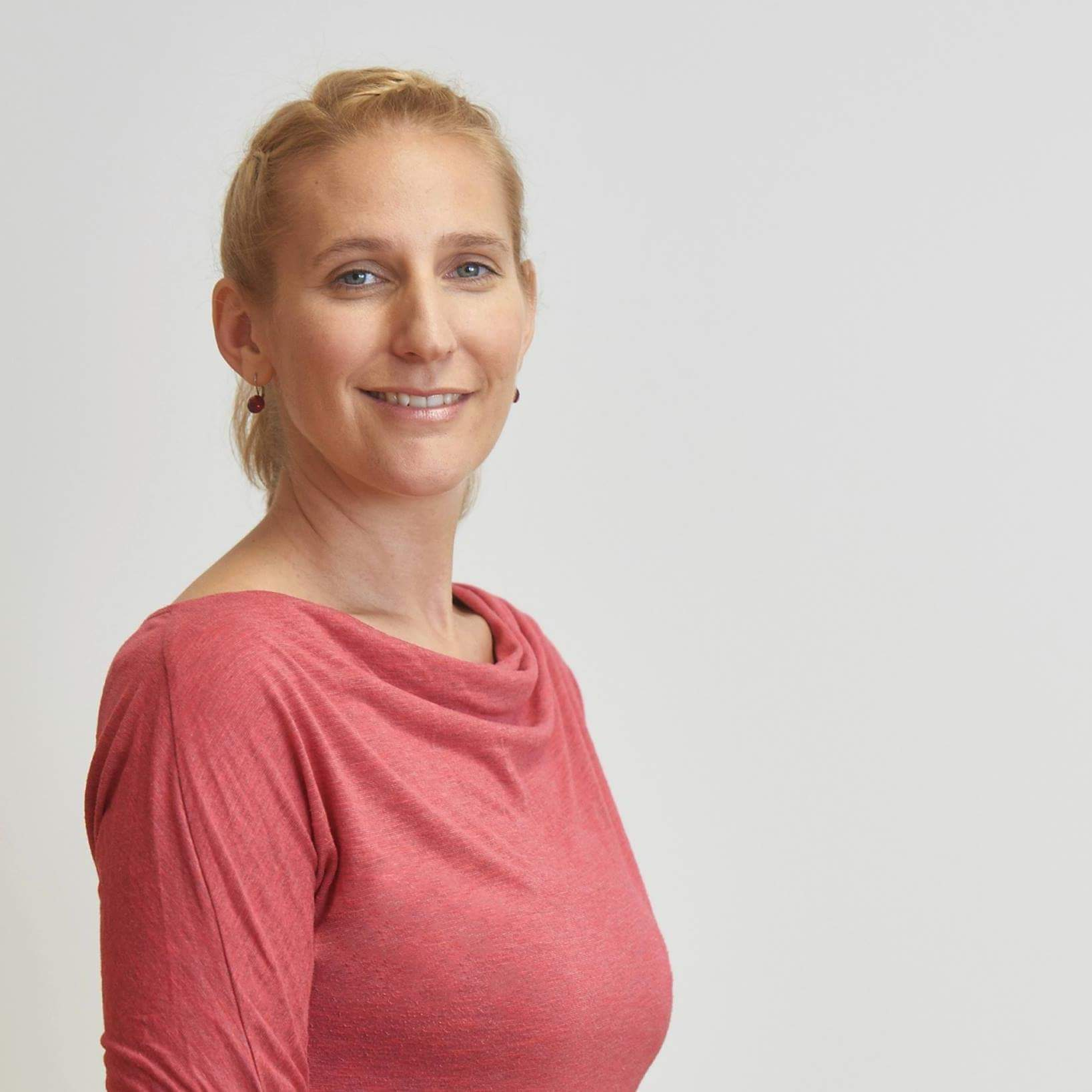 Elke Gulden 2016